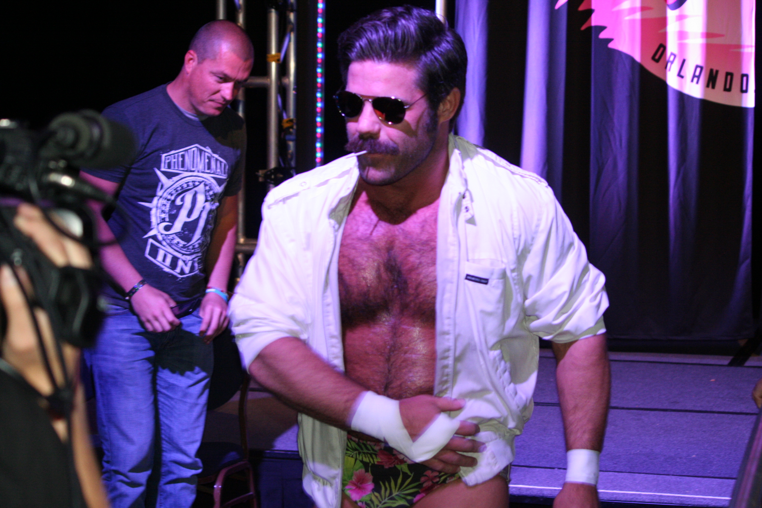 Joey Ryan vs.Shayna Baszler at Wrestlecon Womens Supershow in Orlando